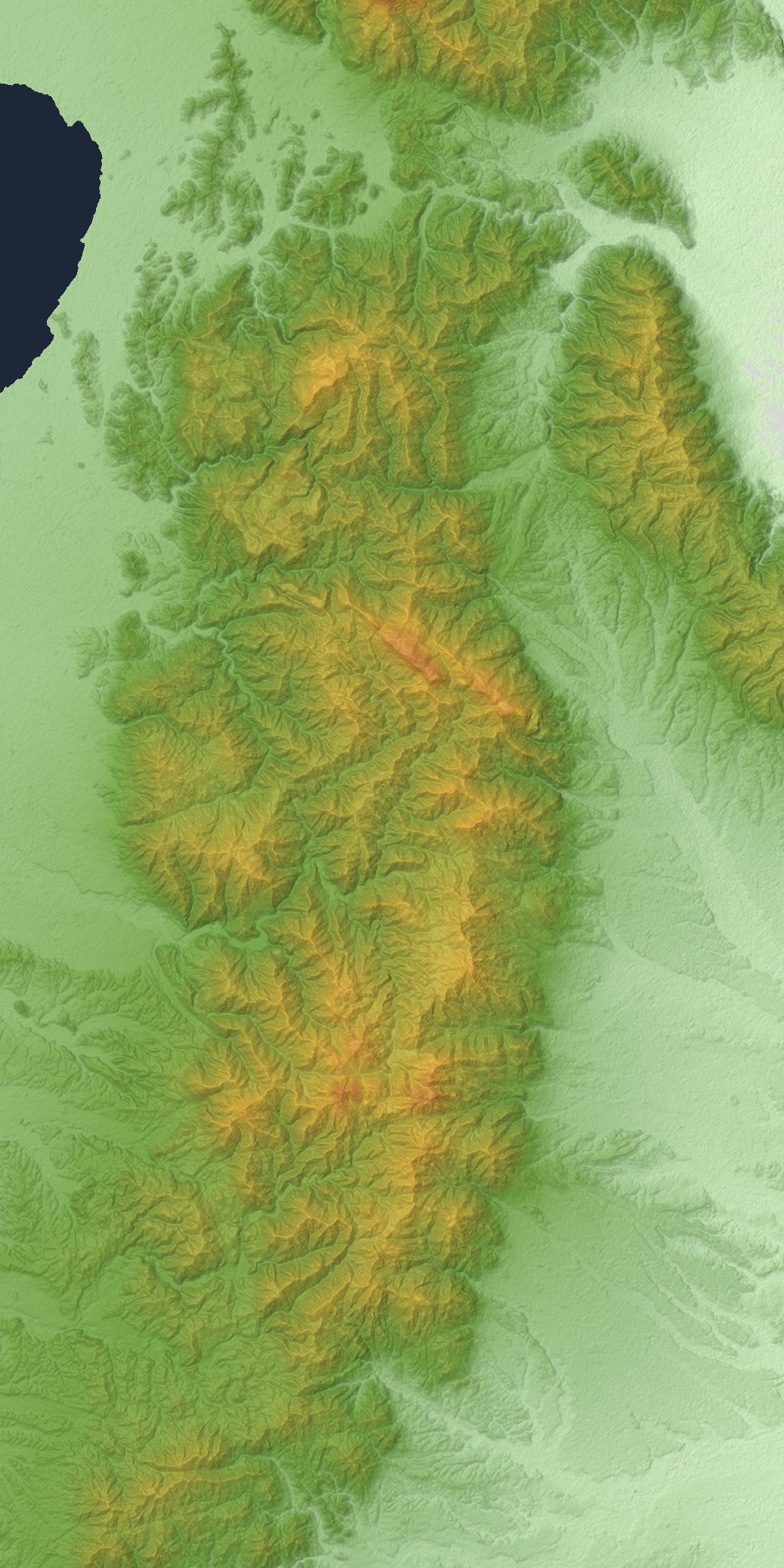 Suzuka Mountains in the border between Gifu and Mie and Shiga Prefectures, Honshu, Japan.